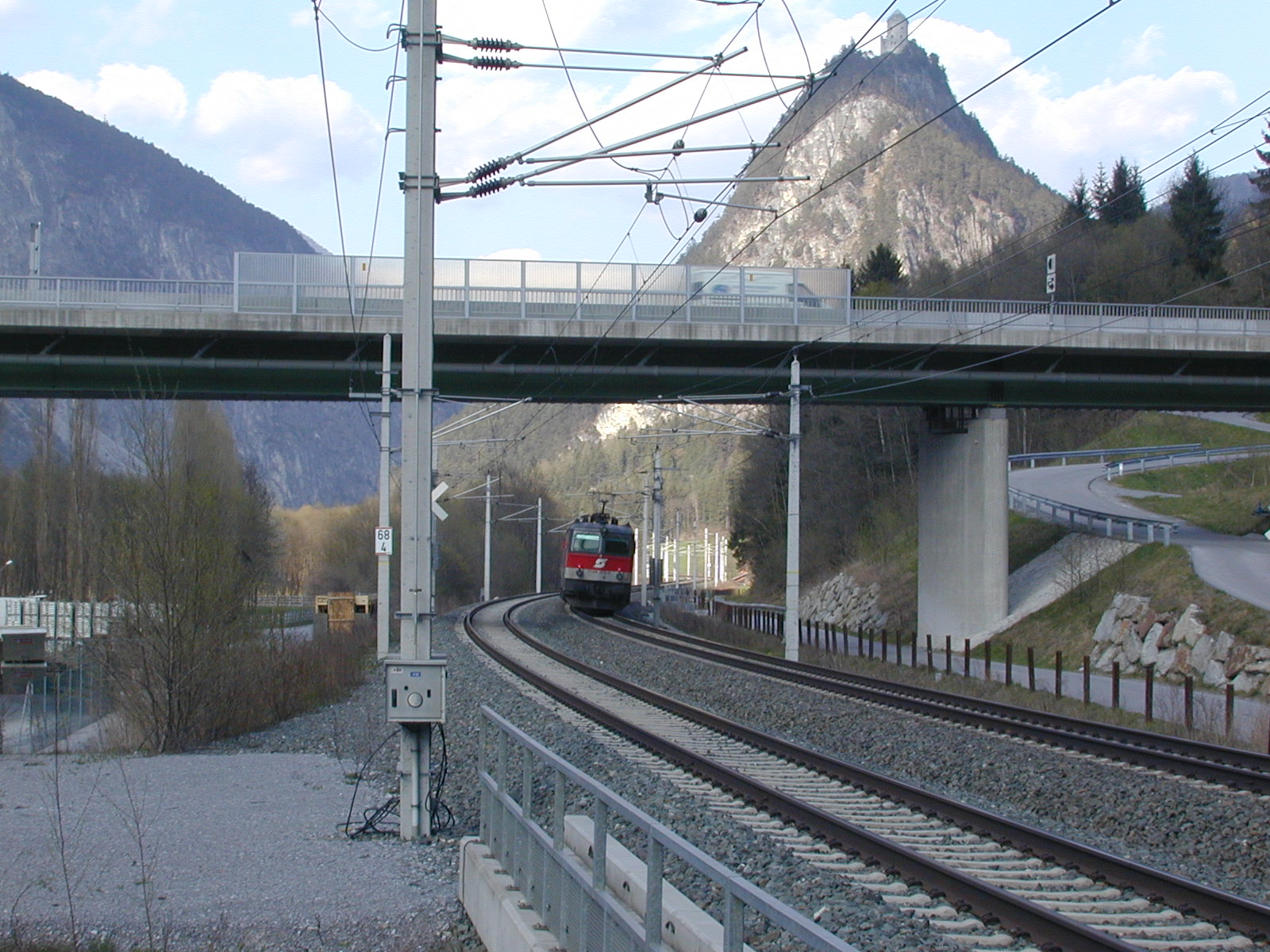 ÖBB class 1044 with fast train E 1569 to Innsbruck after leaving the Zammer Tunnel (eastbound) (background: castle ruin of Kronburg)